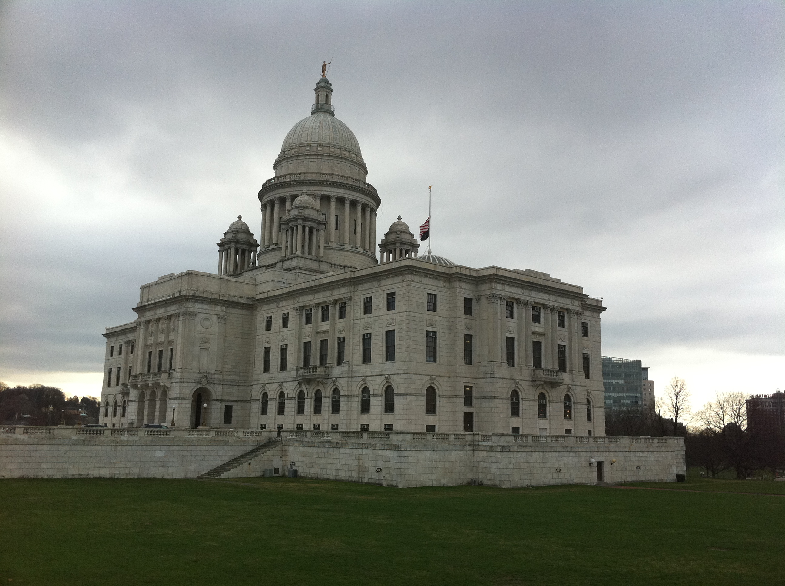 Rhode Island state capitol USA